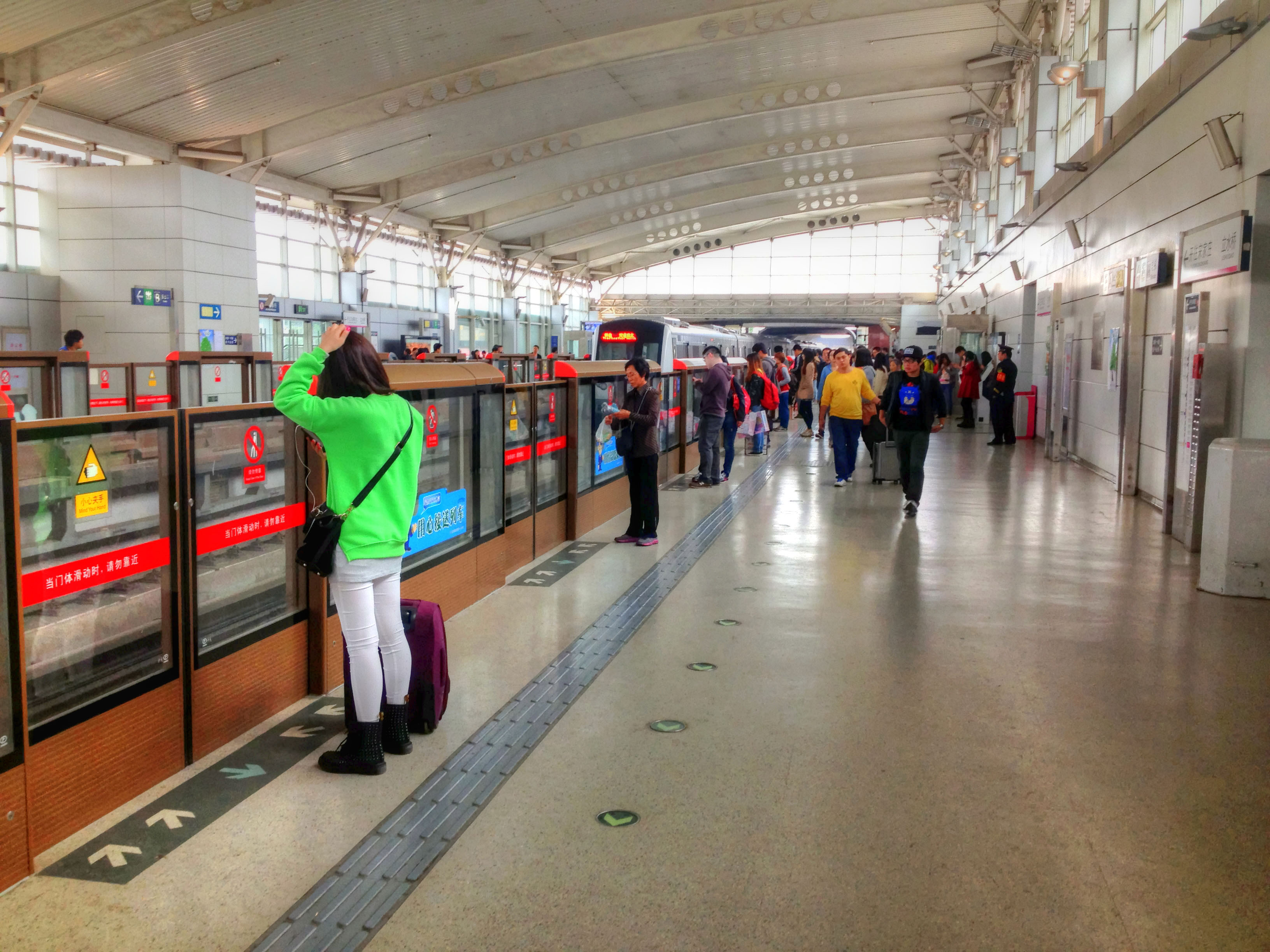 Palaces, avenues, buildings, parks, and scenery around China's Capital Shot of the Beijing Subway